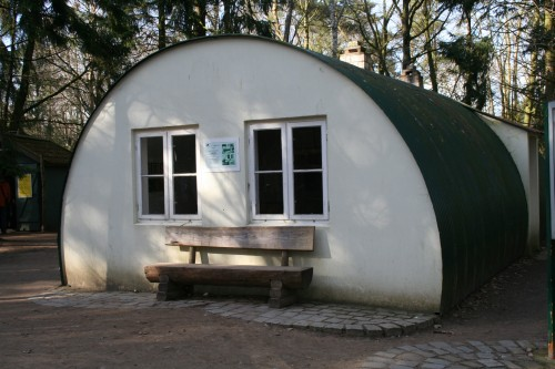 Nissen hut